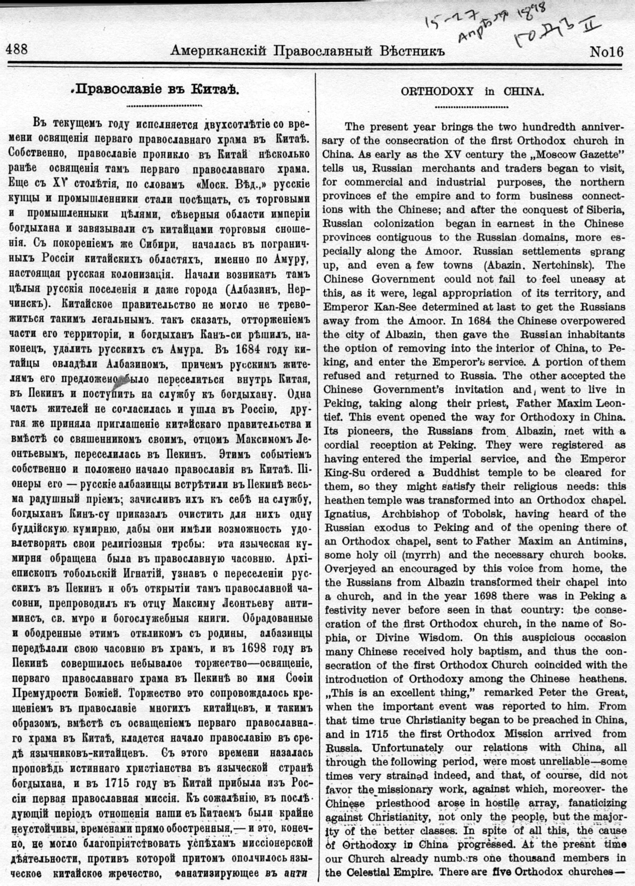 A page from the Orthodox American Messenger, April 1898, about Orthodoxy in China.